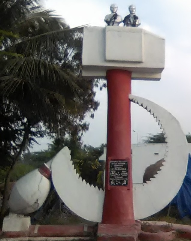 தருமபுரி மாவட்டத்தில் செயல்பட்டுவந்து தமிழக காவல் துறையினரால் கொல்லப்பட்ட நக்சலைட் தலைவர்களான பாலன, அப்பு ஆகியோரின் நினைவுச்சின்னம் மற்றும் சிலைகள்